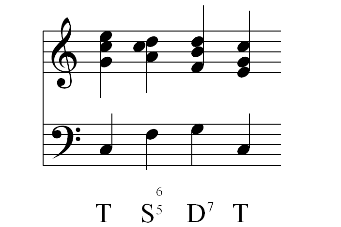 example of musical cadence T-S56-D7-T, revised